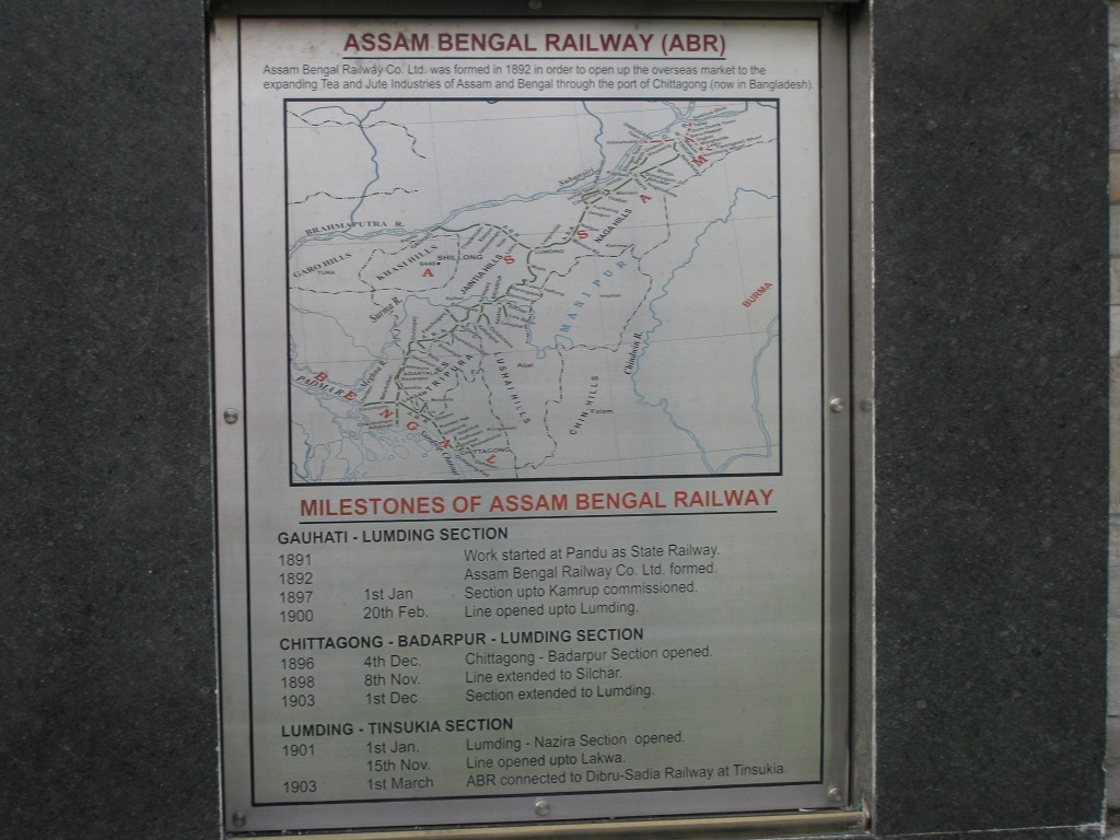 Assam_Bengal_Railway_Milestone board, Heritage museum, tinsukia